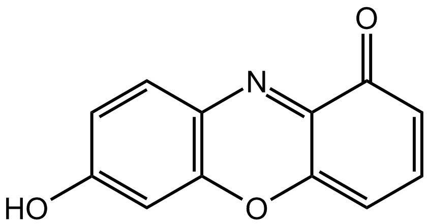 7-hydroxyphenoxazone (IUPAC: 7-hydroxy-1H-phenoxazin-1-one)